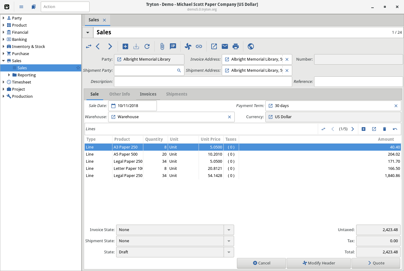 Screenshot of Tryton's sale form